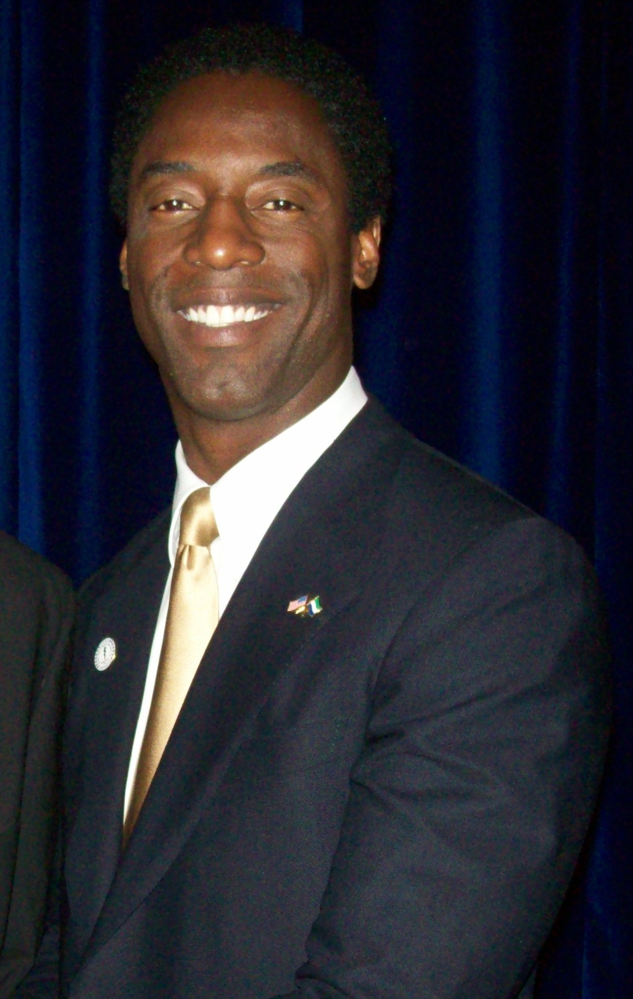 21:58, 23 March 2008 (UTC)21:58, 23 March 2008 (UTC)~~Isaiah Washington after speech at SNMA conference.